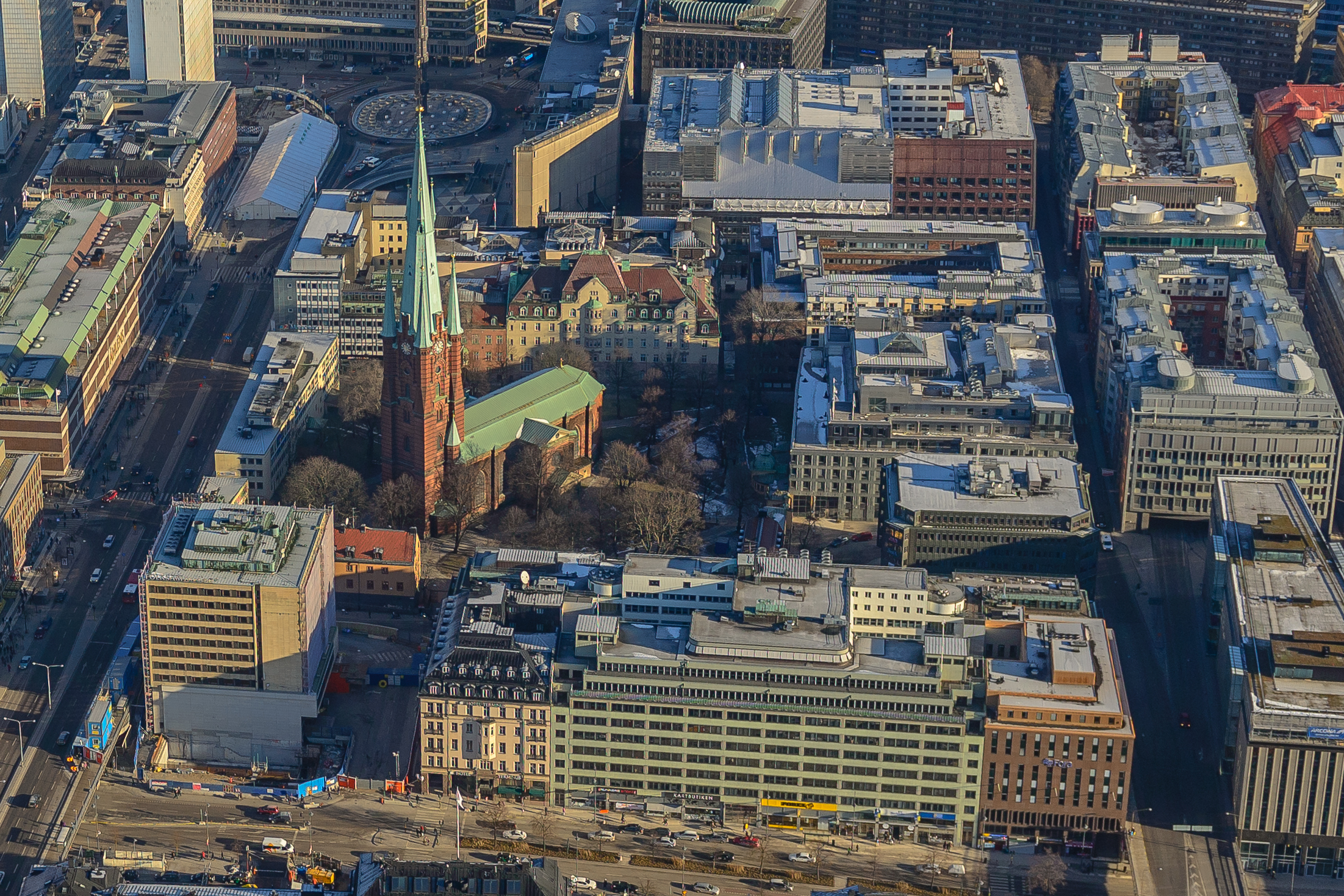 Klara kyrka (church).